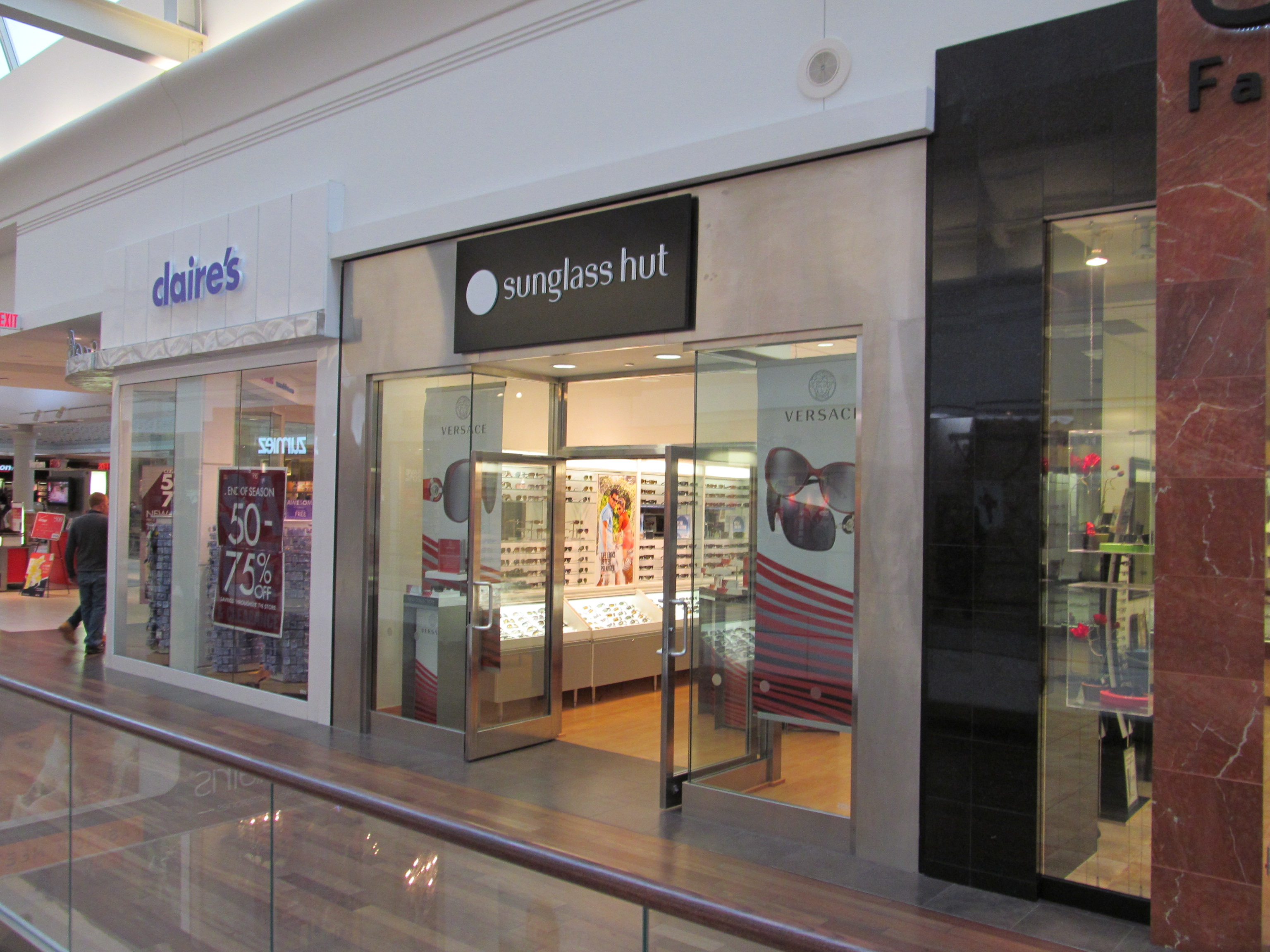 Sunglass Hut at the Natick Mall, Natick Massachusetts